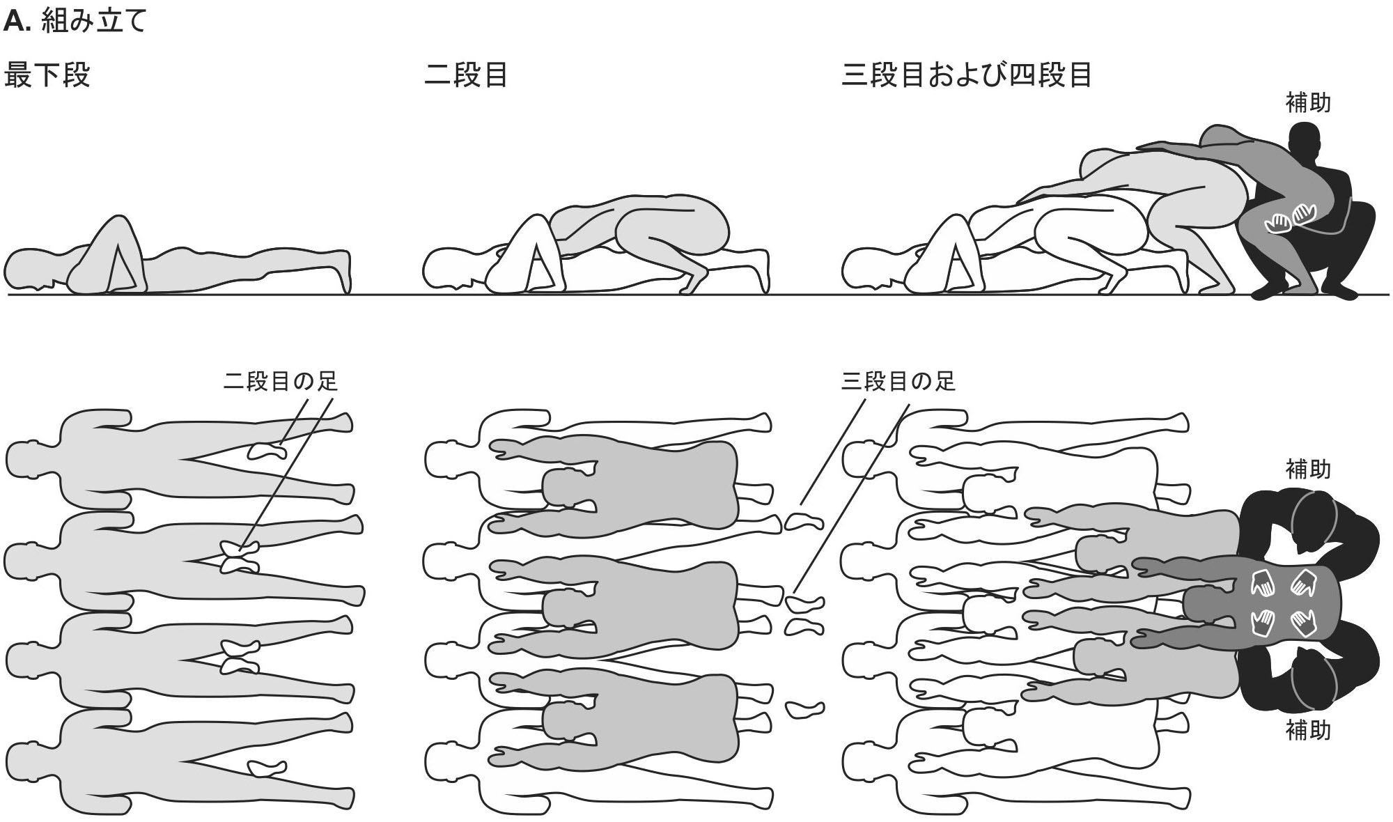 瞬間起立四段ピラミッド、臥位